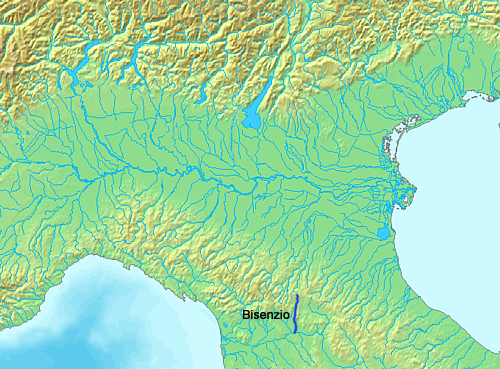 Location of Bisenzio river within Northern Italy